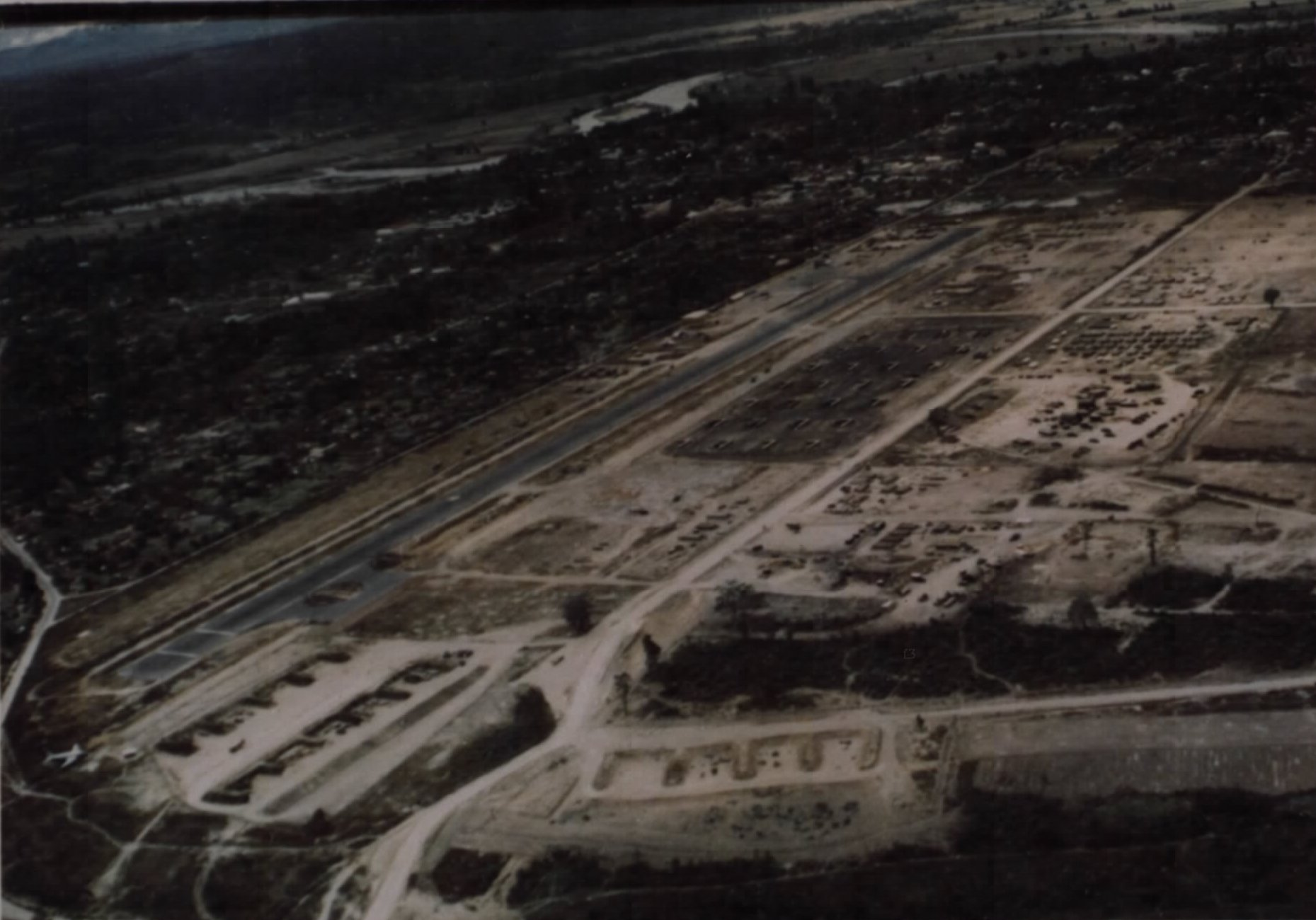 Aerial view of the airfield at Kontum, which served as the forward base of operations for a brigade of the 1st Air Cav Div during Operation MacArthur In support of the operation members of the 299th Eng Bn constructed the helicopter parking facilities and the ammunition storage pads.